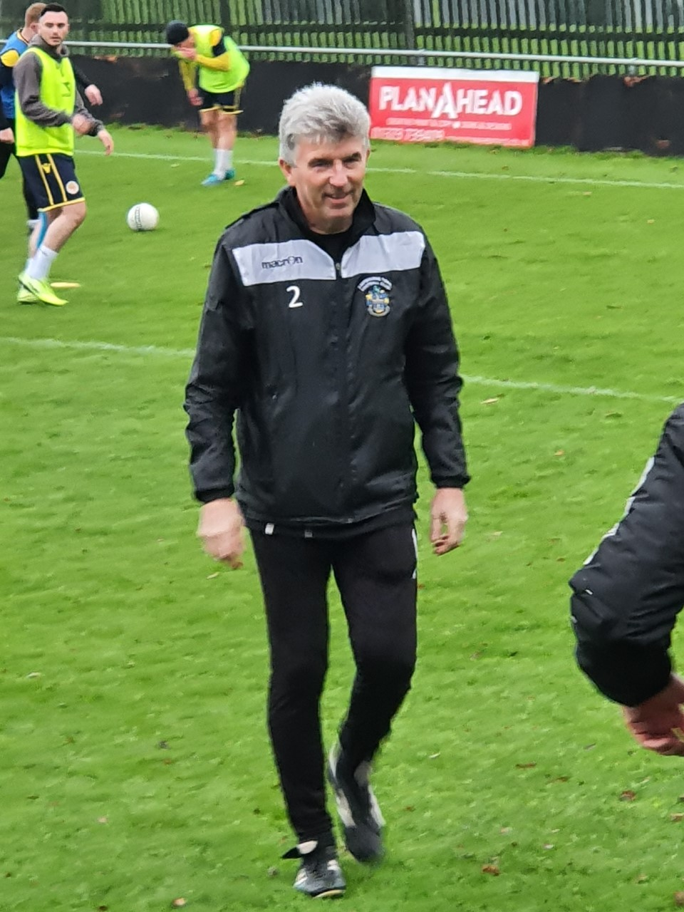 Eastbourne Town Football Club Manger from 2014